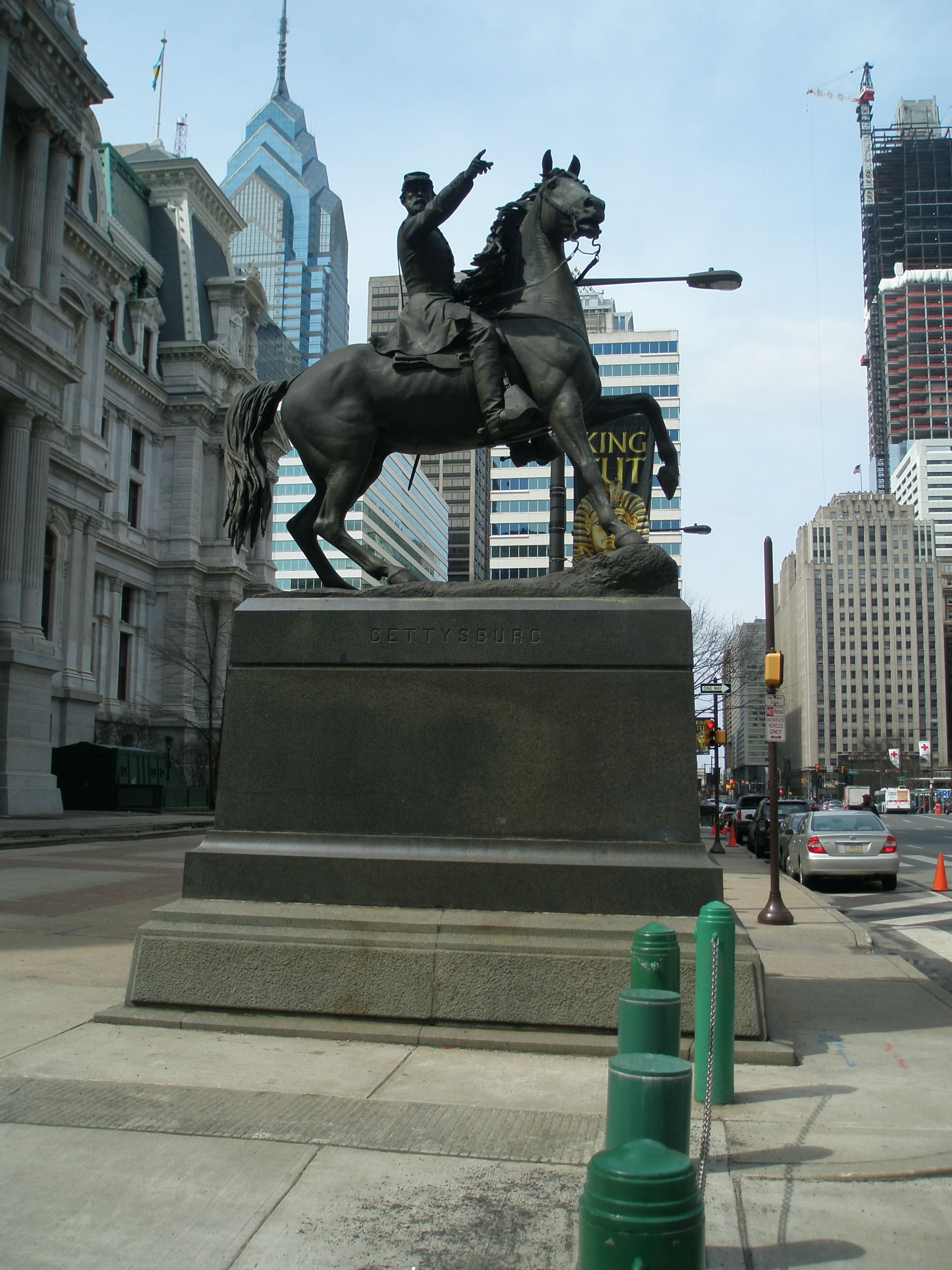 Equestrian statue of John F. Reynolds in front of Philadelphia City Hall.